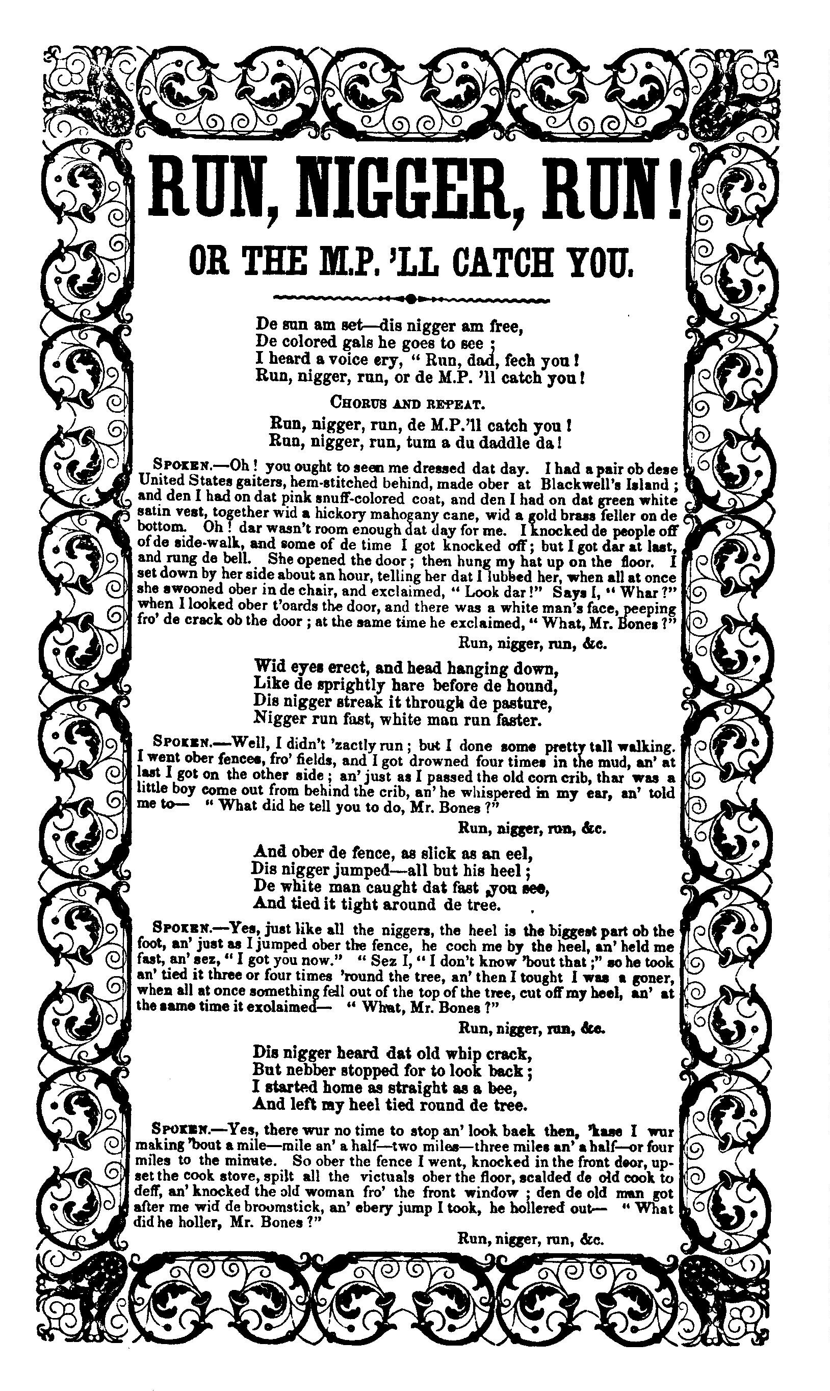 "Run, nigger, run! or the M. P. 'll catch you", a version of "Run, Nigger, Run" recorded in White's Serenaders' Song Book (1851)